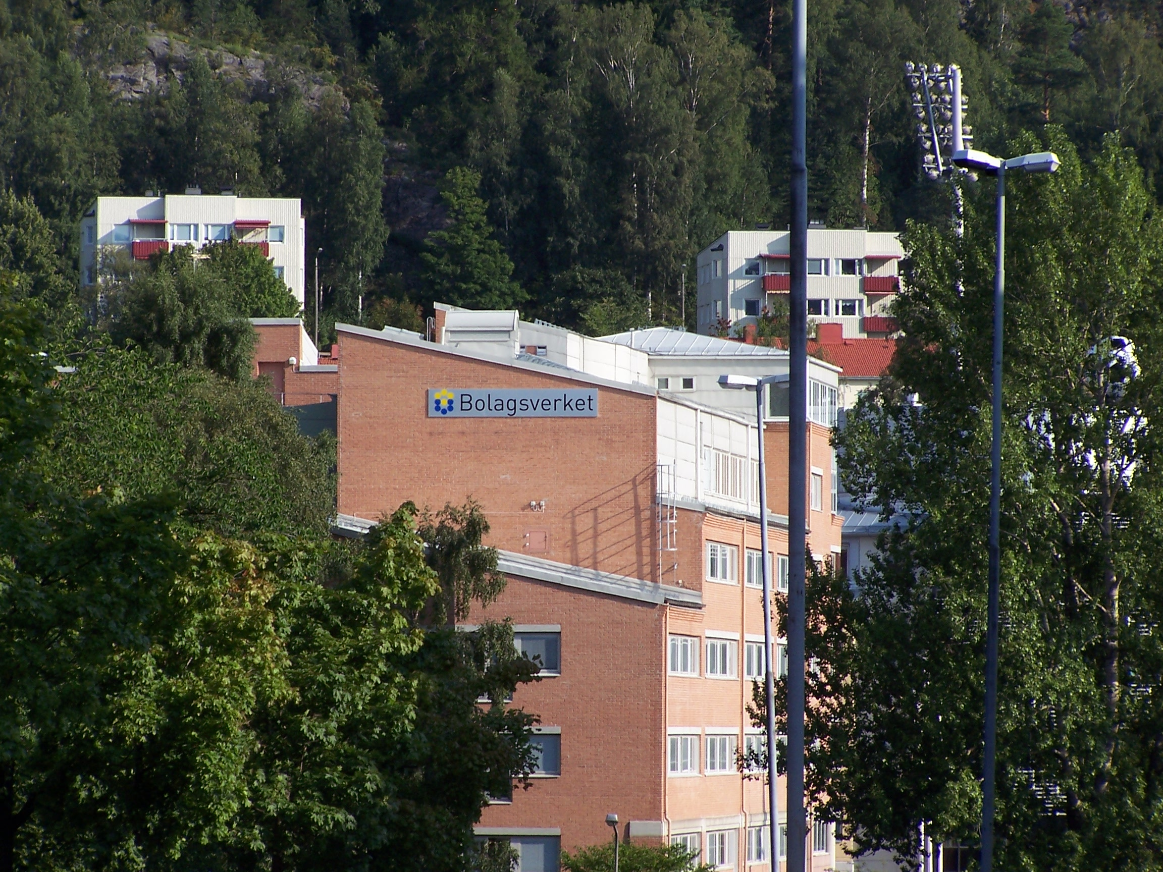 Bolagsverket in Sundsvall, Sweden.